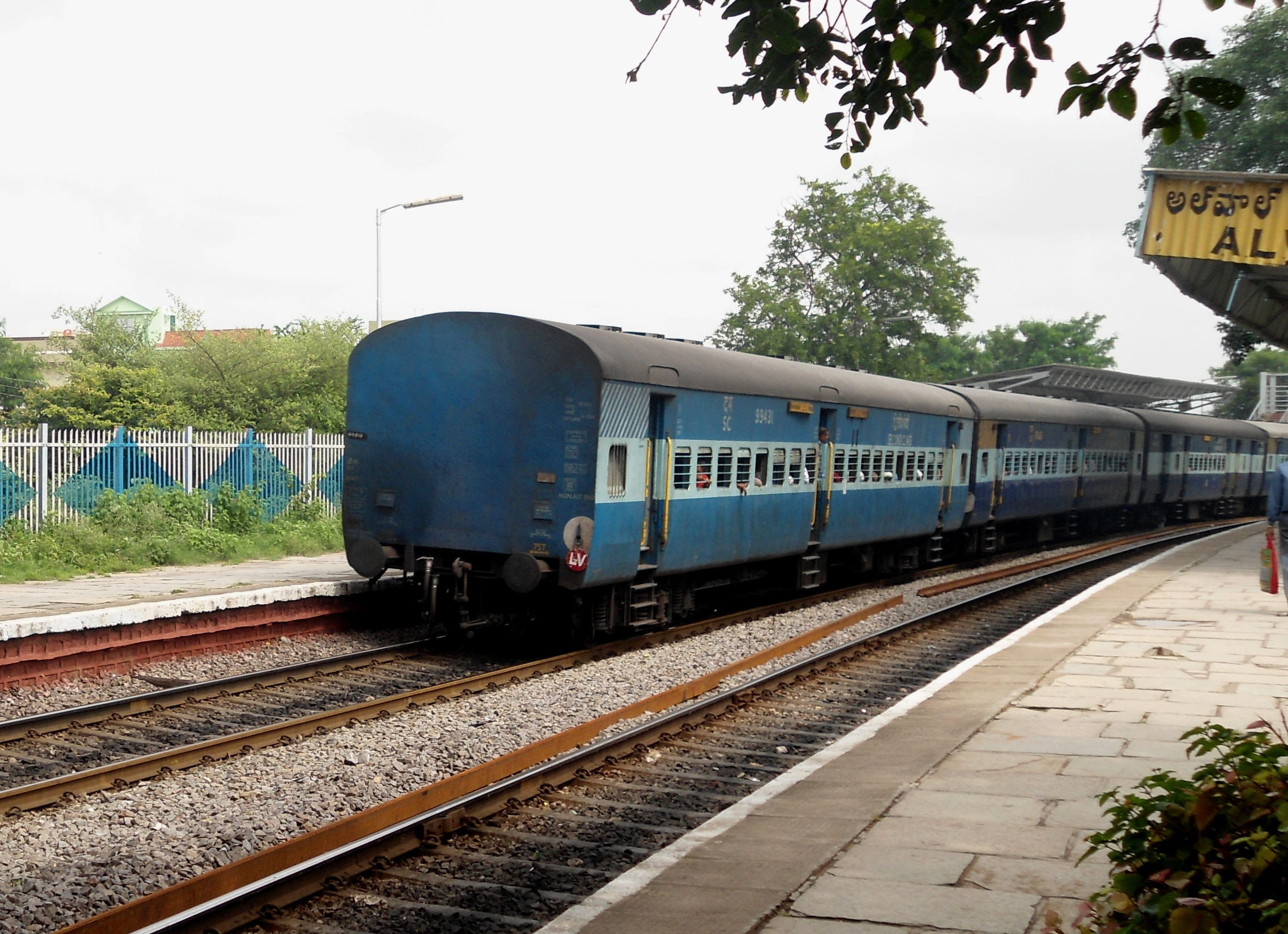 KCG-Nizamabad Passenger with WDG-3A loco (13244) at Alwal railway station, Hyderabad